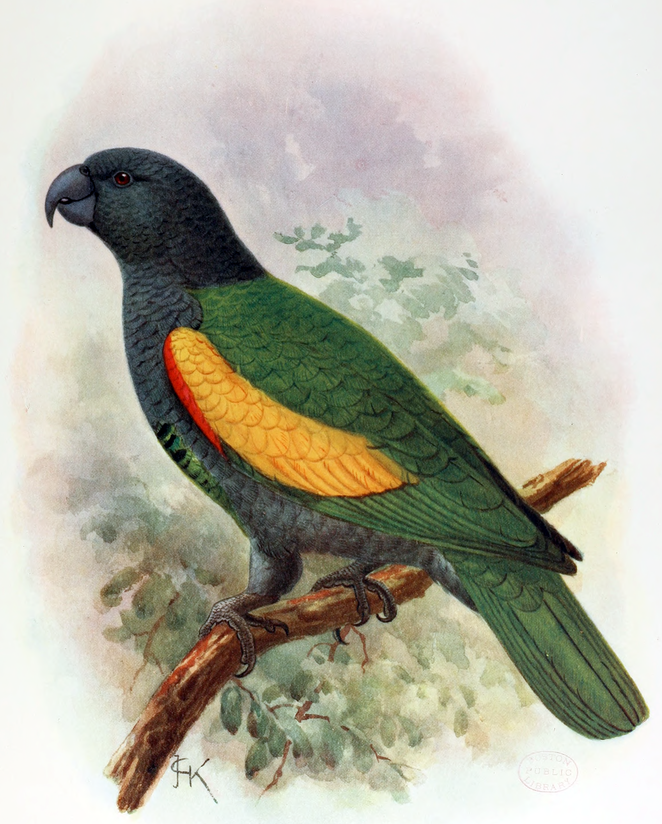 The Guadeloupe Parrot (Amazona violacea) was a species of parrot in the Psittacidae family. It was endemic to Guadeloupe.